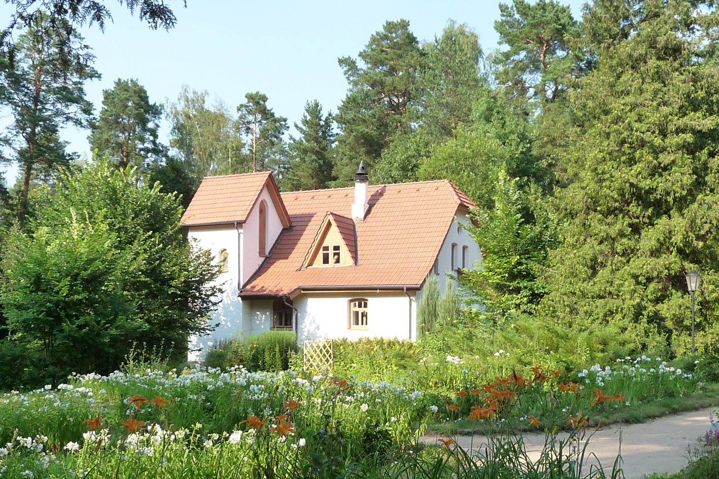 The Abbatstvo (the Studio of the Artist) in Museum-Estate Polenovo. Zaoksky District. Tula oblast.